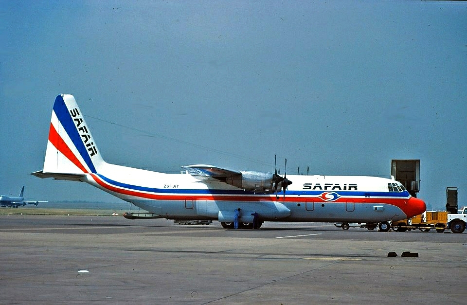 Photo by P.,Dubois